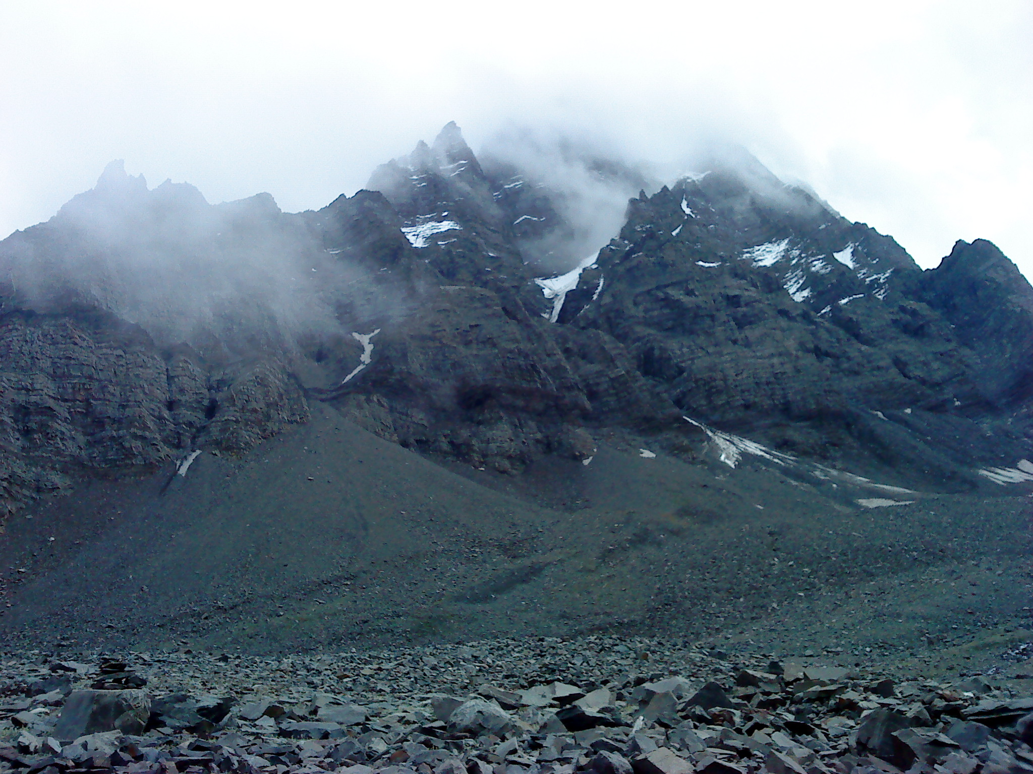 At the base of ManiMahesh Kailash Peak